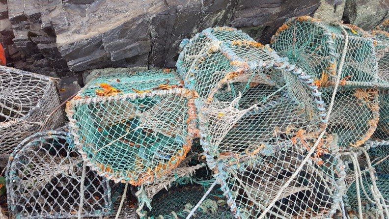 Lobster pots in Plockton, Scotland